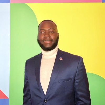 Photo of Lovens Gjed